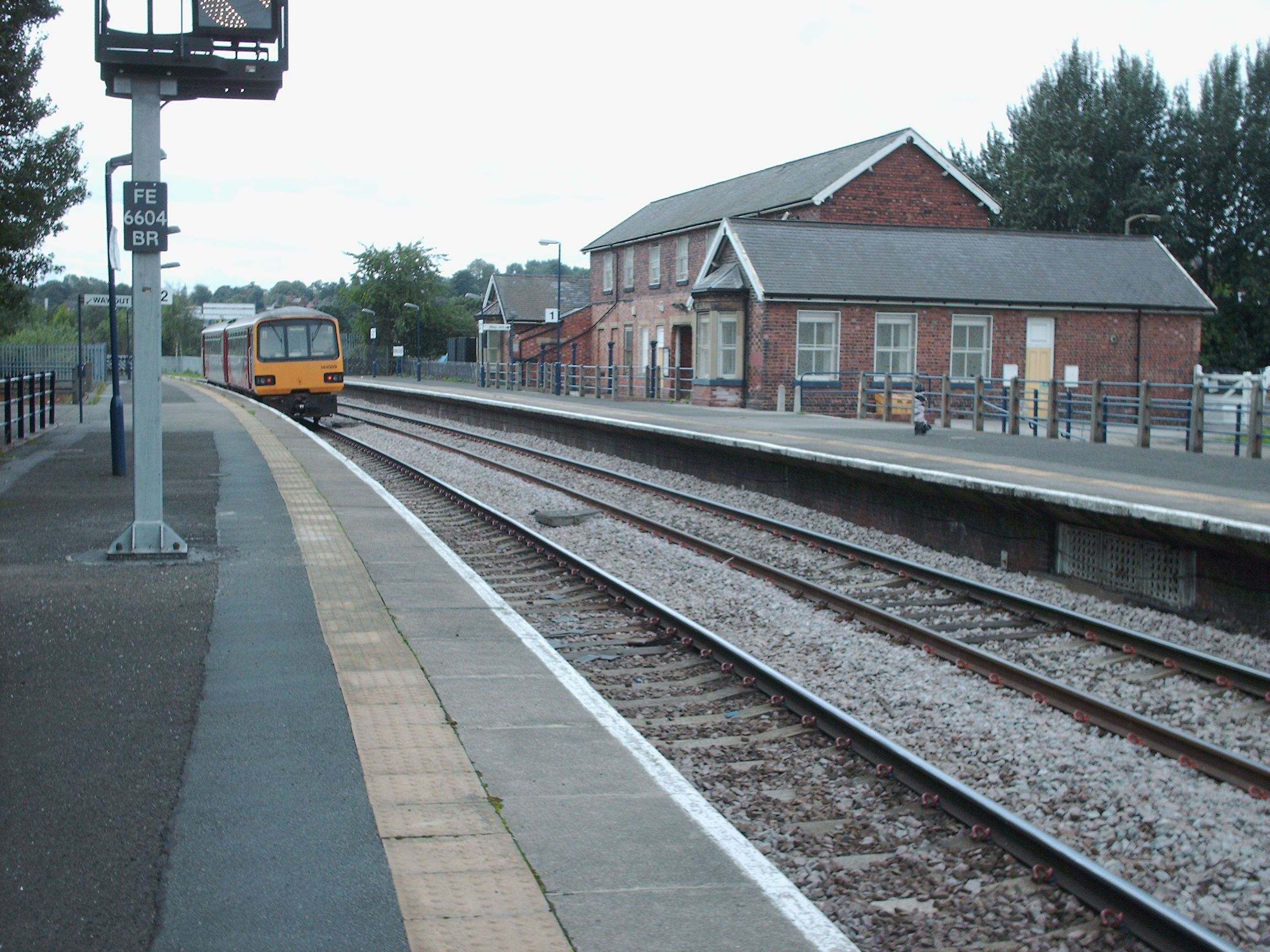 Pontefract Baghill railway station, West Yorkshire, England. 144009 departing.